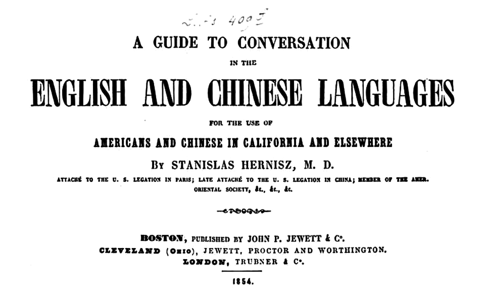 A GUIDE TO CONVERSATION IN THE ENGLISH AND CHINESE LANGUAGES FOR THE USE OF AMERICANS AND CHINESE IN CALIFORNIA AND ELSEWHERE. BY STANISLAS HERNISZ, m. d., ATTACHE TO THE U. S. LEGATION IN PARIS ; LATE ATTACHE TO THE U.S. LEGATION IN CHINA ; MEMBER OF THE AMERICAN ORIENTAL SOCIETY, ETC, ETC, ETC. BOSTON: PUBLISHED BY JOHN P. JEWETT AND COMPANY. CLEVELAND, OHIO : JEWETT, PROCTOR & WORTHINGTON. LONDON : TRUHNER & CO. 1855.